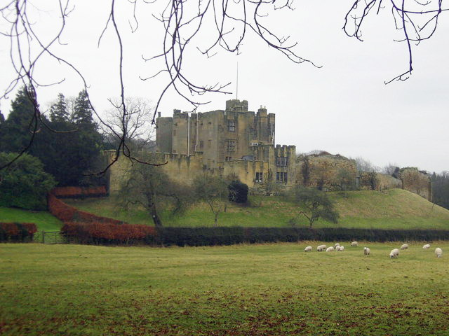 Bothal Castle, Northumberland, England.